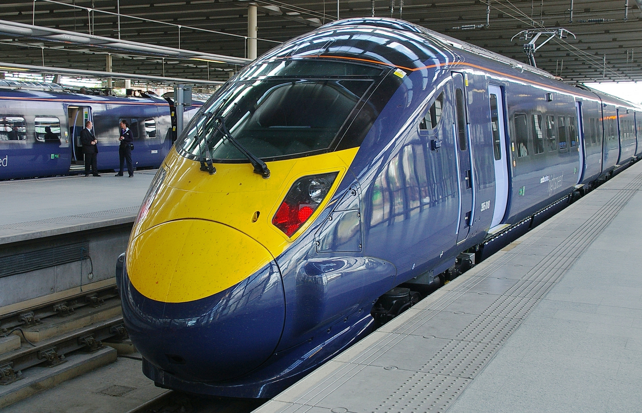 Southeastern "Javelin" unit 395018 at London St Pancras railway station, with 395002 in the background.